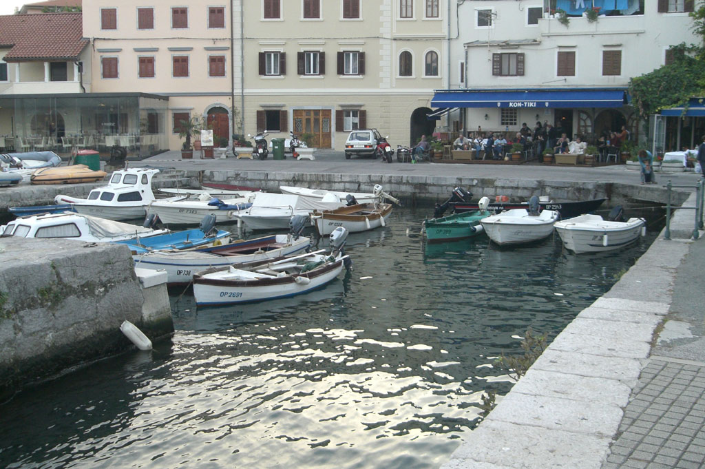 "Mandrač" (small closed port) in Volosko, Croatia. Volosko is a small town on Opatija riviera, hometown of Andrija Mohorovičić.